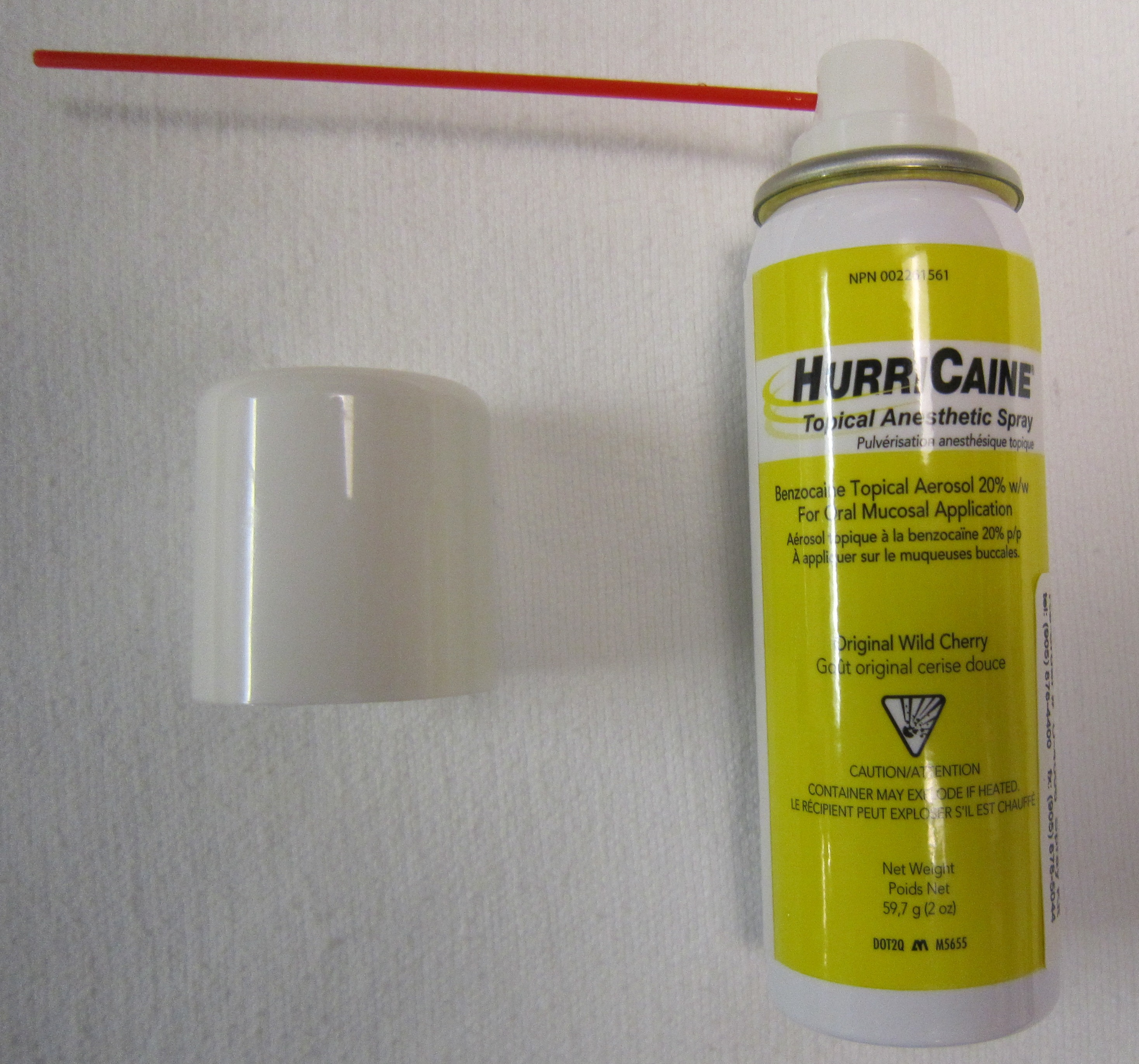 Benzocain spray